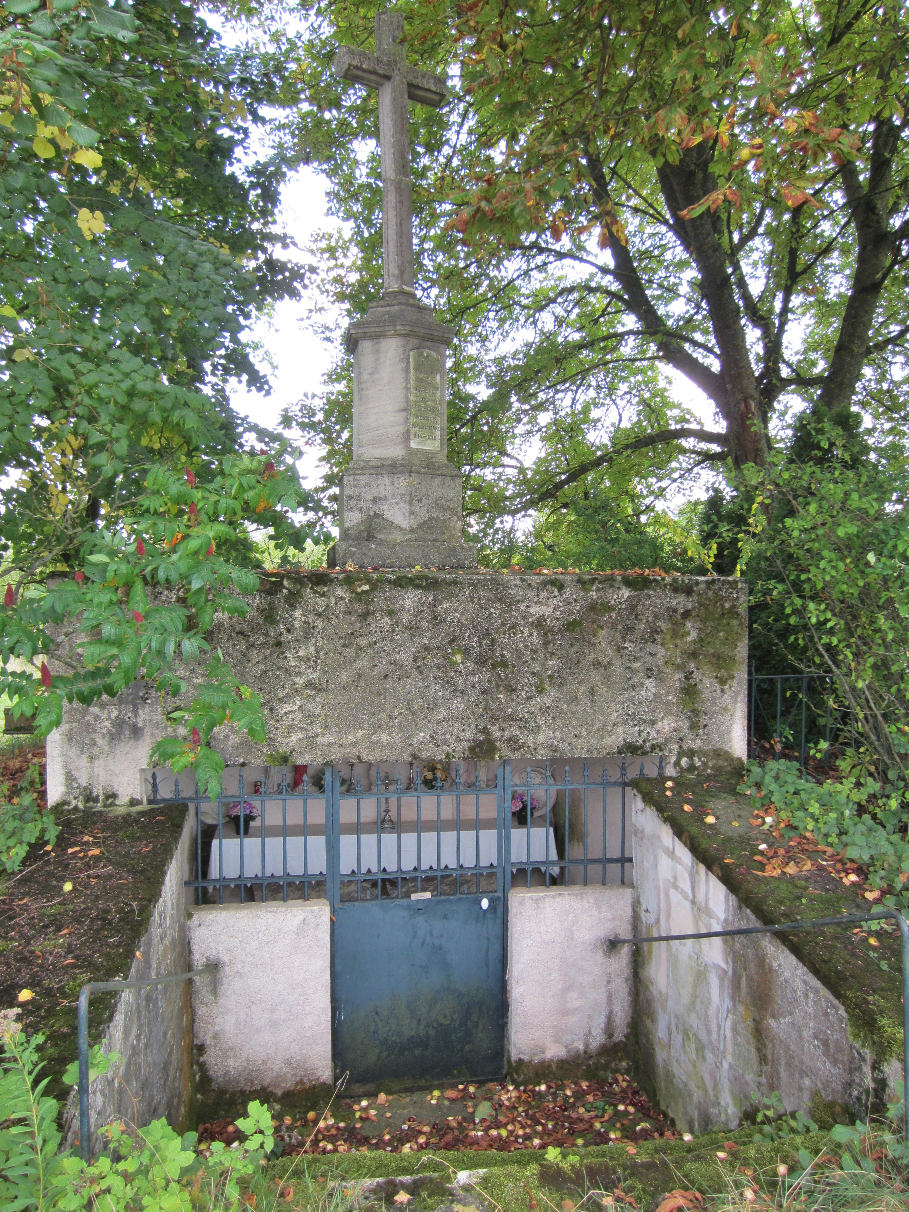 Description oratoire Maizerais Date27 September 2011Sourcemon appareil photoAuthorAimelaimePermission (Reusing this file) oratoire Maizerais